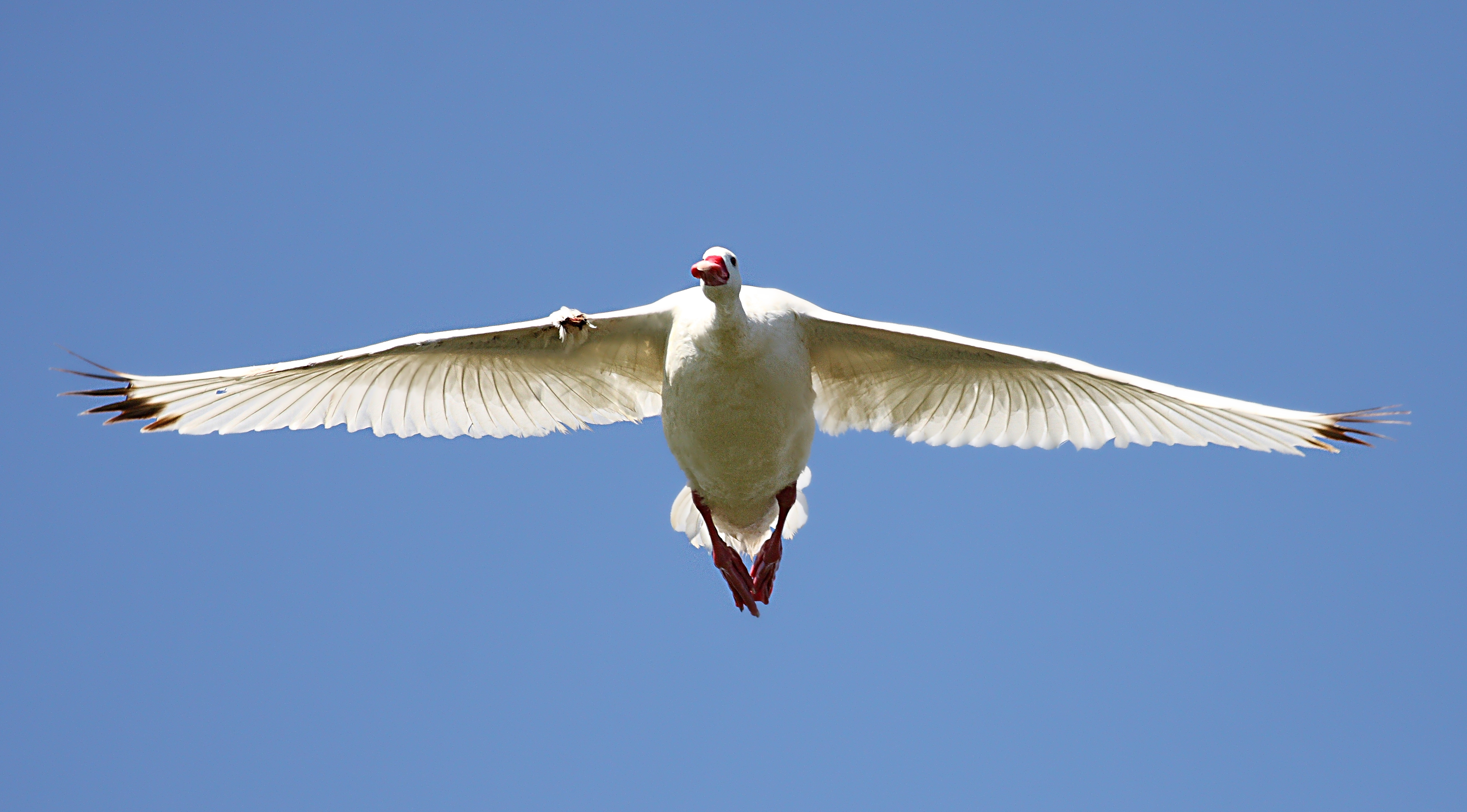 Coscoroba Swan flying in Argentina.